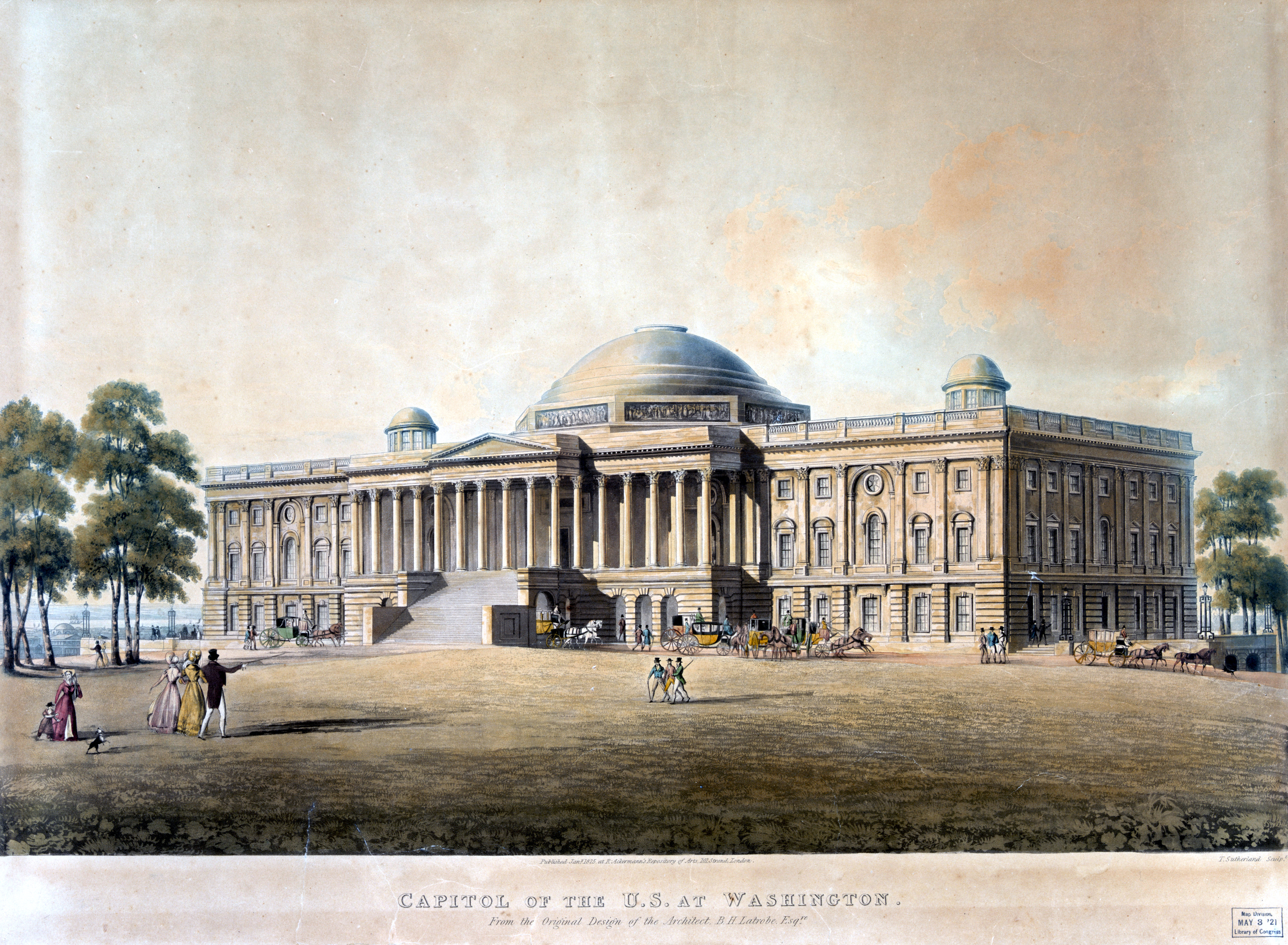 "1 print : aquatint and etching, hand-colored." The United States Capitol in Washington, D.C., from the original design by Architect of the Capitol Benjamin Henry Latrobe.